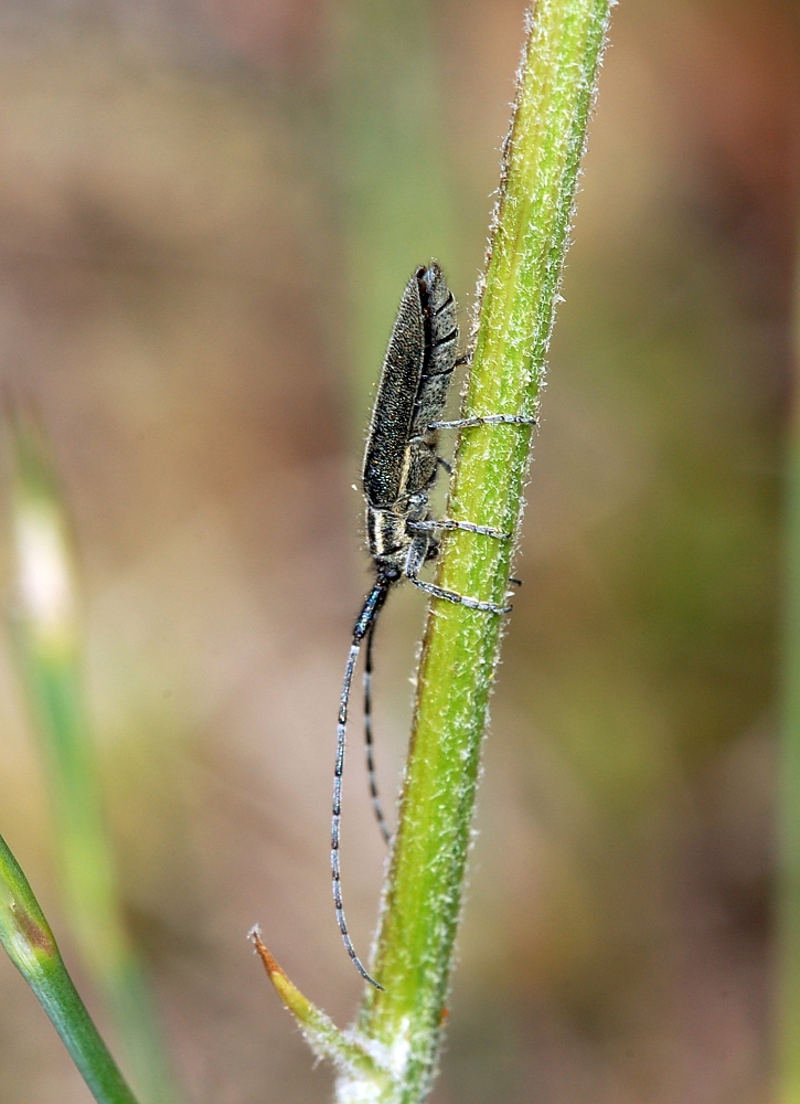 Lamiinae, Agapanthia cardui, 2 km North of Le Caylar, 43°51'N 03°19'E, 800mNN, Languedoc-Roussillon, France